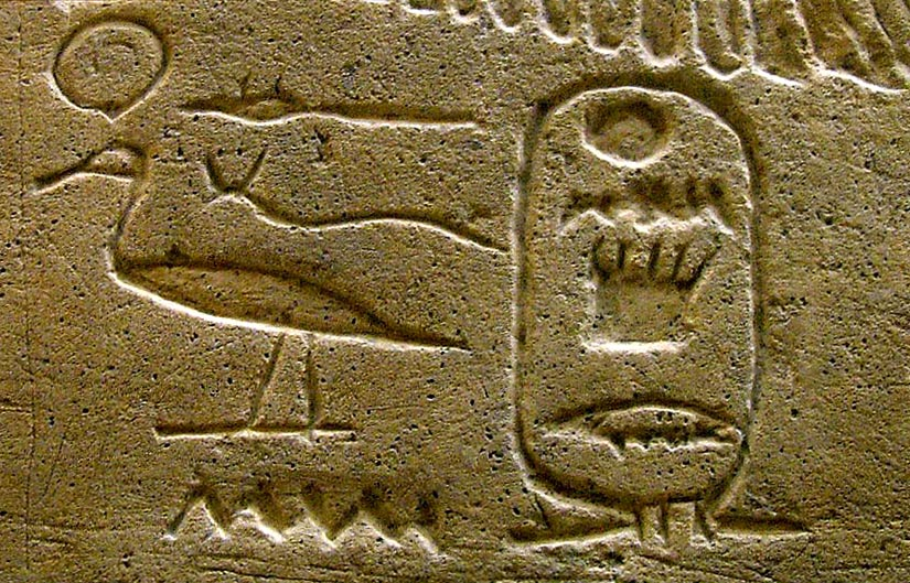 Detail of the nomen of king Khendjer of the 13th dynasty. His royal name or prenomen was Userkare (strong is the soul of Re). Khendjer may have had a second prenomen at his coronation: 'Nimaatre' which translates as 'The one who belongs to Maat is Re.'[1] Stela of Ameny-sonb. Conservation: Paris. Louvre Museum